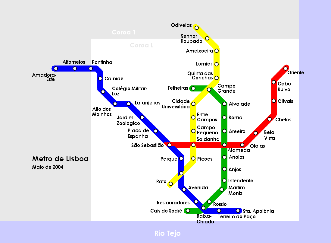 Lisbon Underground 29th August 2009